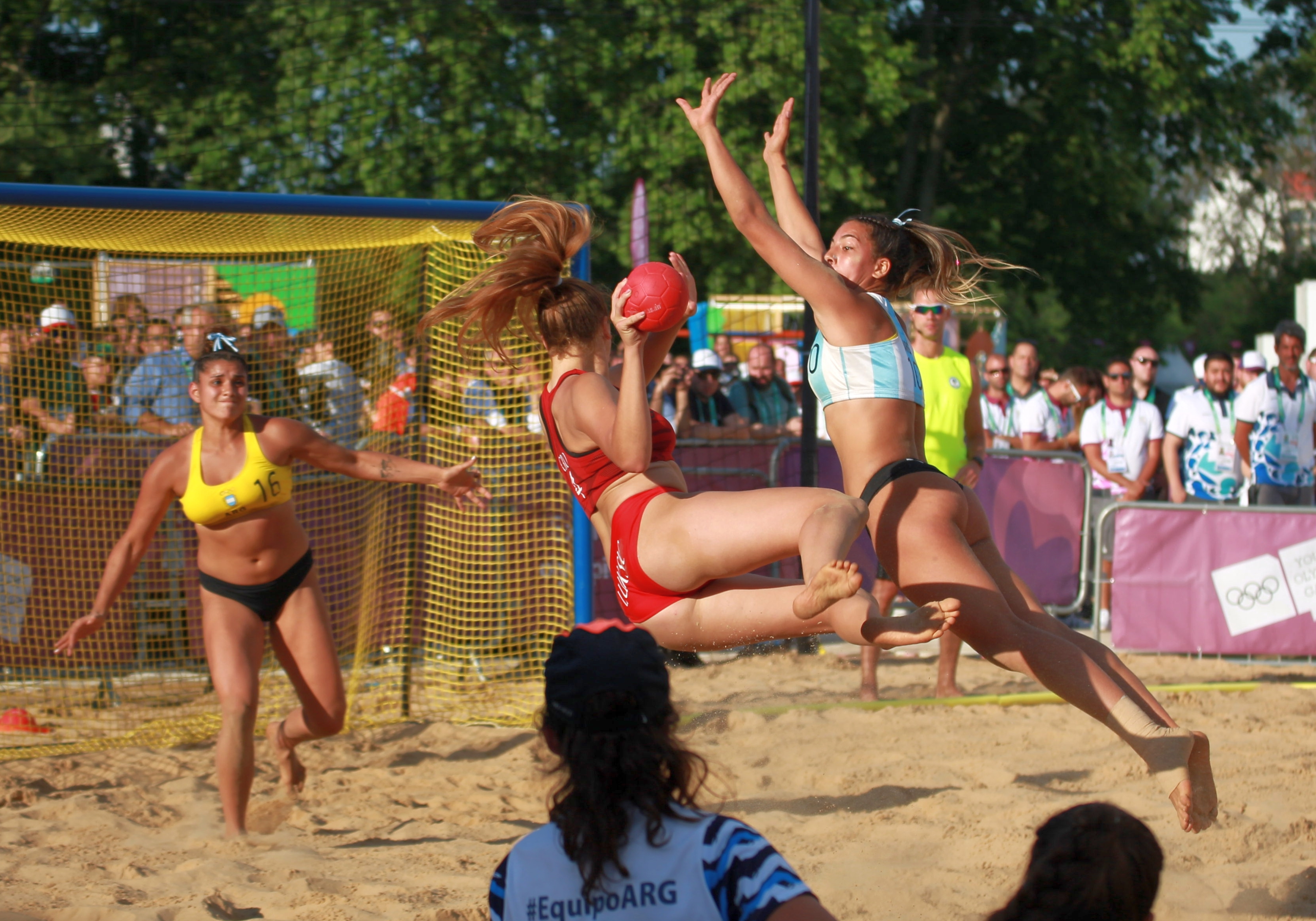 Beach handball at the 2018 Summer Youth Olympics in Buenos Aires at 13 October 2018 – Girls Gold Medal Match – Argentina-Croatia 2:0